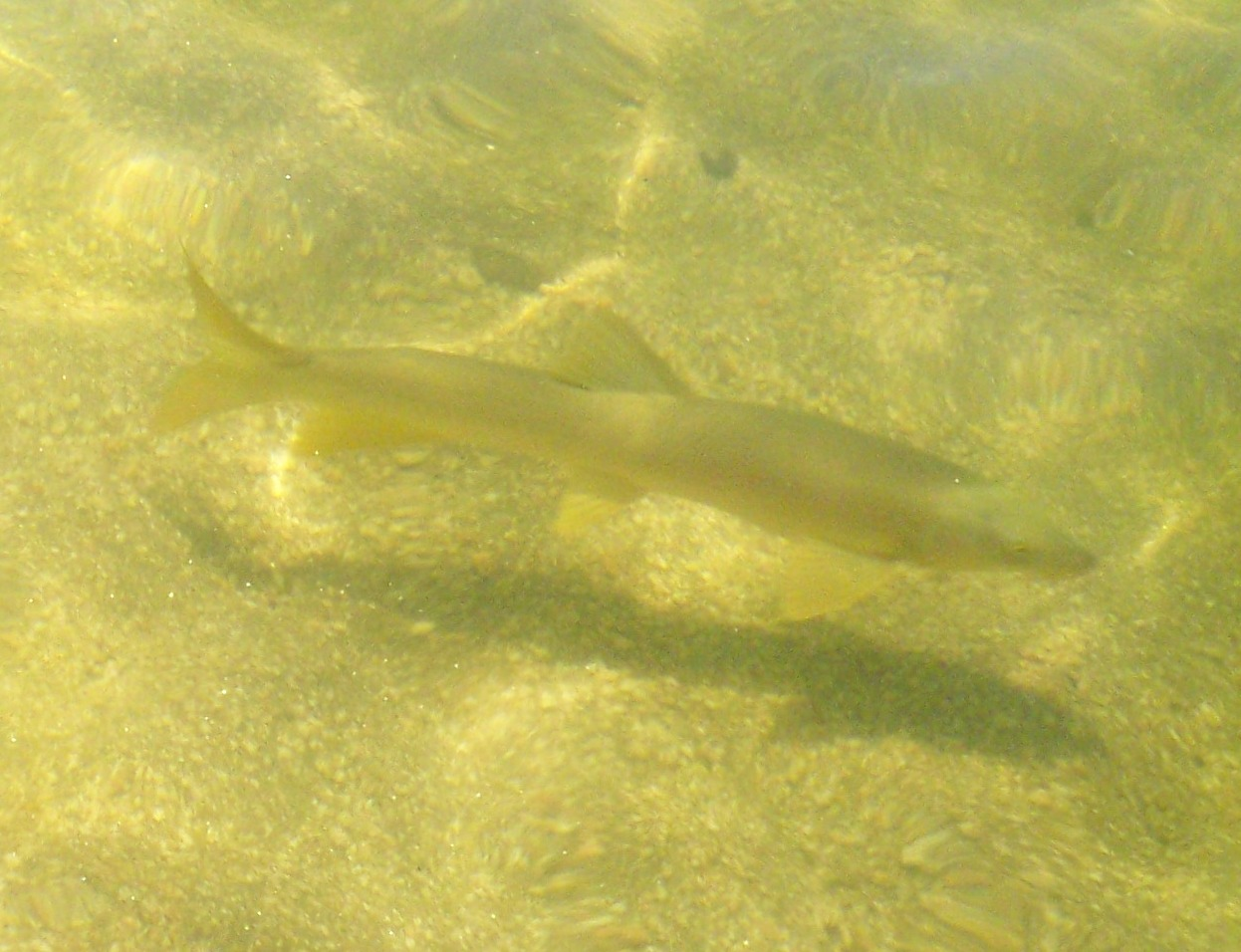 Iberian Barbel (Luciobarbus comizo) at San Juan reservoir, Madrid, Spain.